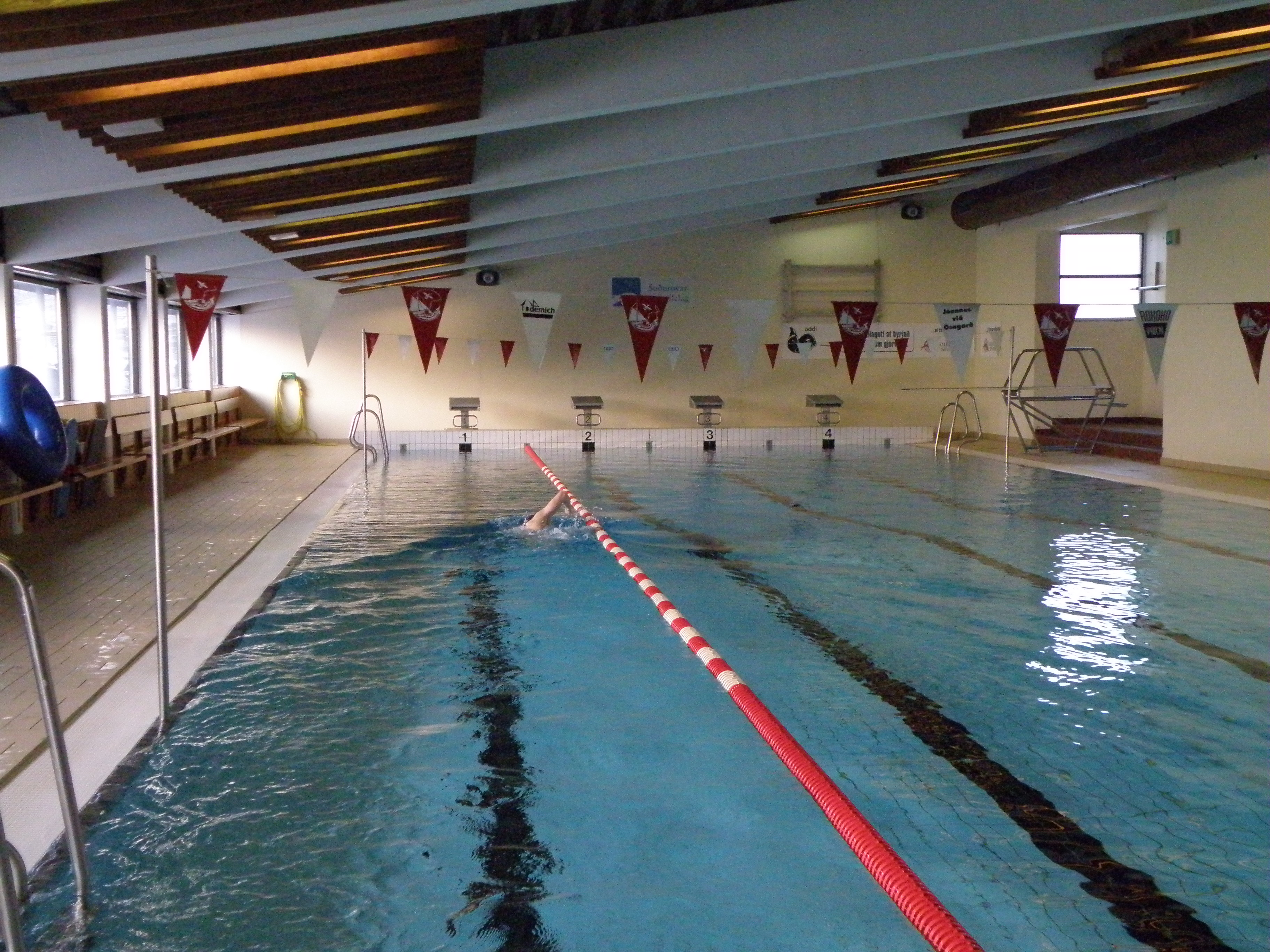 The Swimming Hall of Vágur has one pool, which is 25 meters long. It is the only pool in the island Suðuroy, which is so long. There is one swimming pool in Tvøroyri, which is 12,5 meters long. There are other pools of this length in other places in the Faroe Islands, but as of October 2010 there is no 50-meter pool, but one will be built very soon, they say. A group of people are planning to build a 50-meter swimming pool in Pál Joensen's hometown Vágur. He was triple gold winner at the European Junior Swimming Championships 2008 and silver winner at the European Swimming Championships 2010 on long course. The person on this photo is Pál Joensen, who is training in this pool daily. Sometimes he and his coach go abroad in order to train in a 50-meter pool. The swimming pool in Vágur is in the public school, it was built in 1979. Føroyskt: Vágs Svimjihøll er í Vágs Skúla. Inngongdin er á Toftavegi. Svimjihøllin í Vági varð bygd í 1979. Persónurin sum svimur á hesi myndini er Pál Joensen úr Vági, sum venur dagliga í hesum svimjihylinum, sum er 25 metrar langur. Pál Joensen svimur við Susvim og fyri Føroyar. Hann er til nú tann svimjarin sum hevur uppnátt bestu úrslit og møguliga eisini tað ítróttarfólki, sum hevur klárað seg best, sjálvt um fleiri onnur dømi eru um sera dugnaligir føroyingar sum hava klárað seg væl í altjóða kappingum.